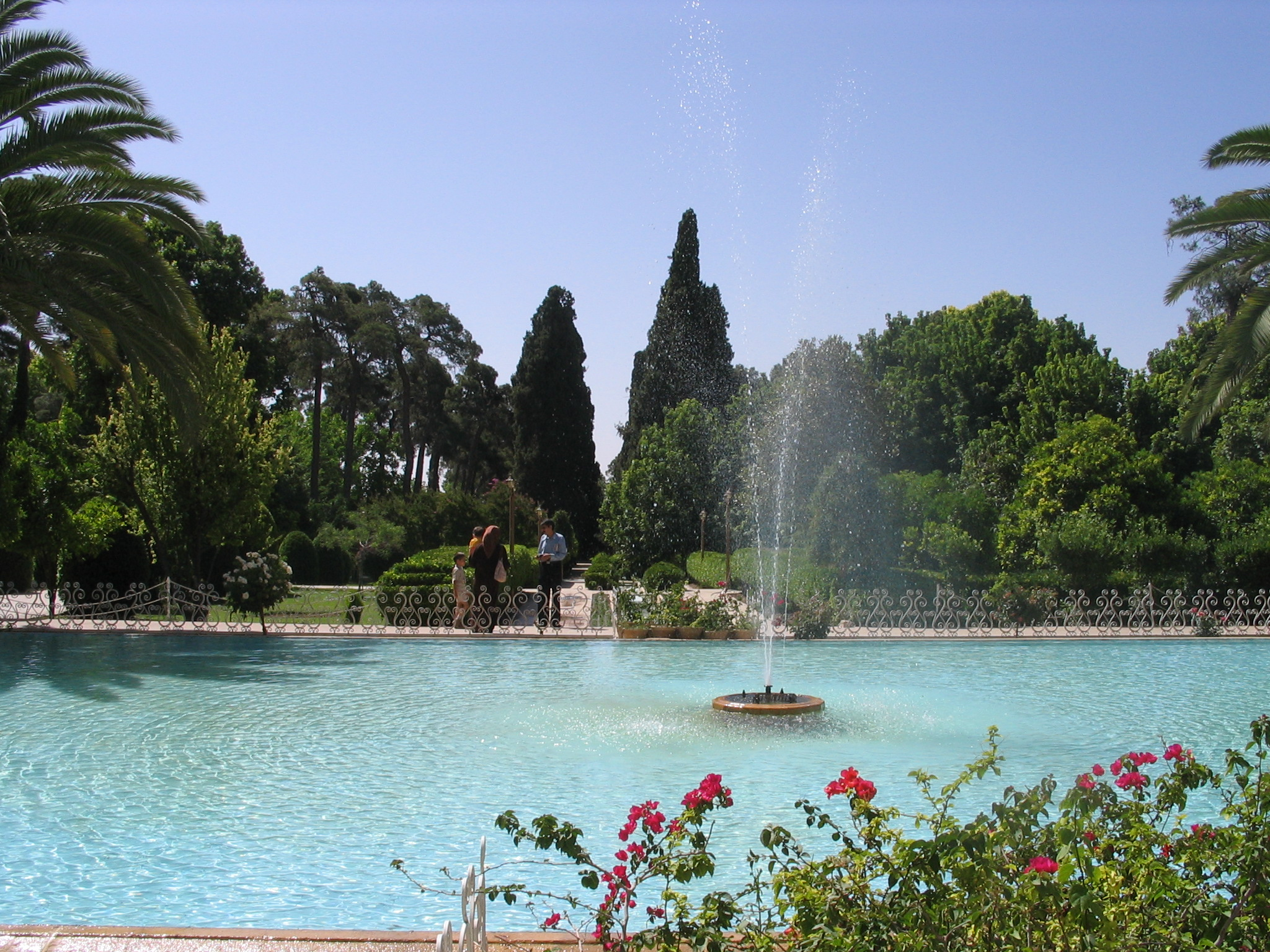 Eram Garden, Shiraz, Iran